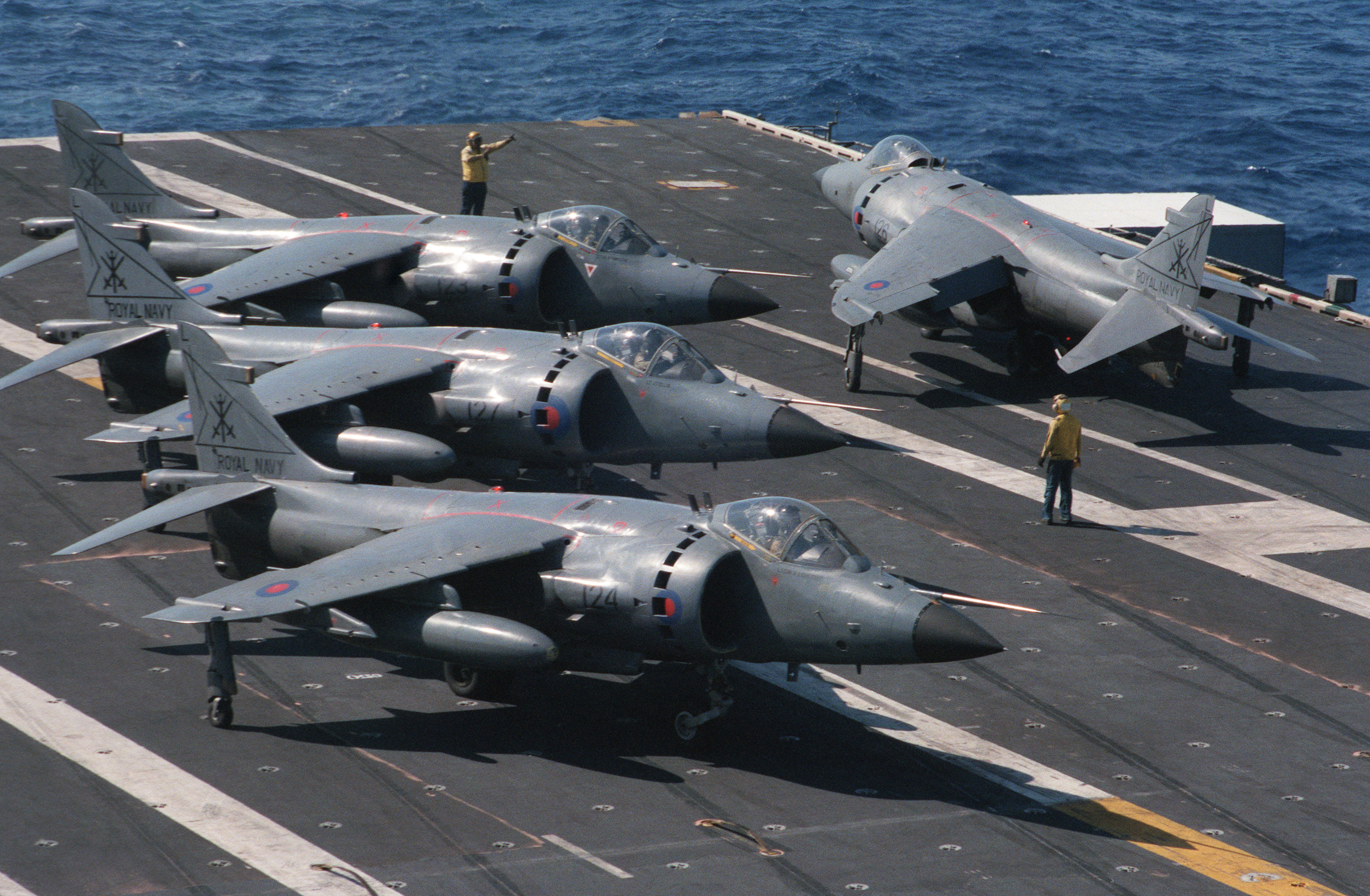 Royal Navy BAe Sea Harrier FRS.1s from No. 800 Naval Air Squadron on HMS Illustrious (R06) parked on the flight deck of the U.S. Navy aircraft carrier USS Dwight D. Eisenhower (CVN-69) on 22 October 1984.